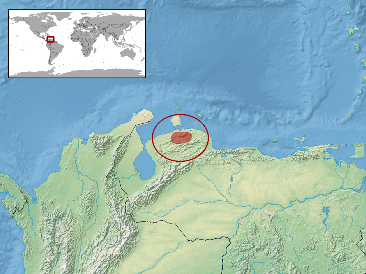 geographic distribution of Drymarchon caudomaculatus (Native: Venezuela)